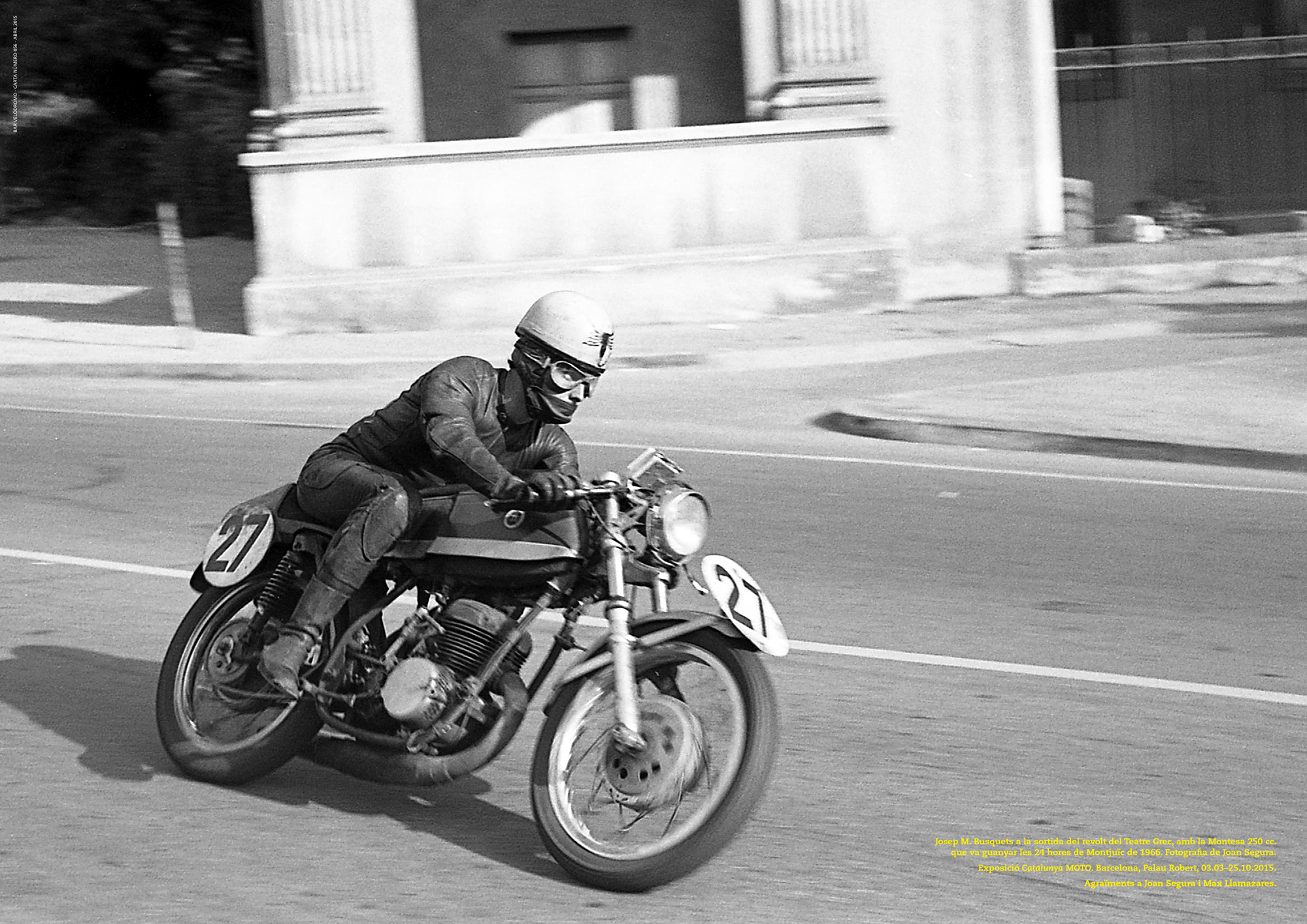 Josep Maria Busquets on the Montesa Impala 250 nr. 27, on the way to success at 1966 24 Hores de Montjuïc